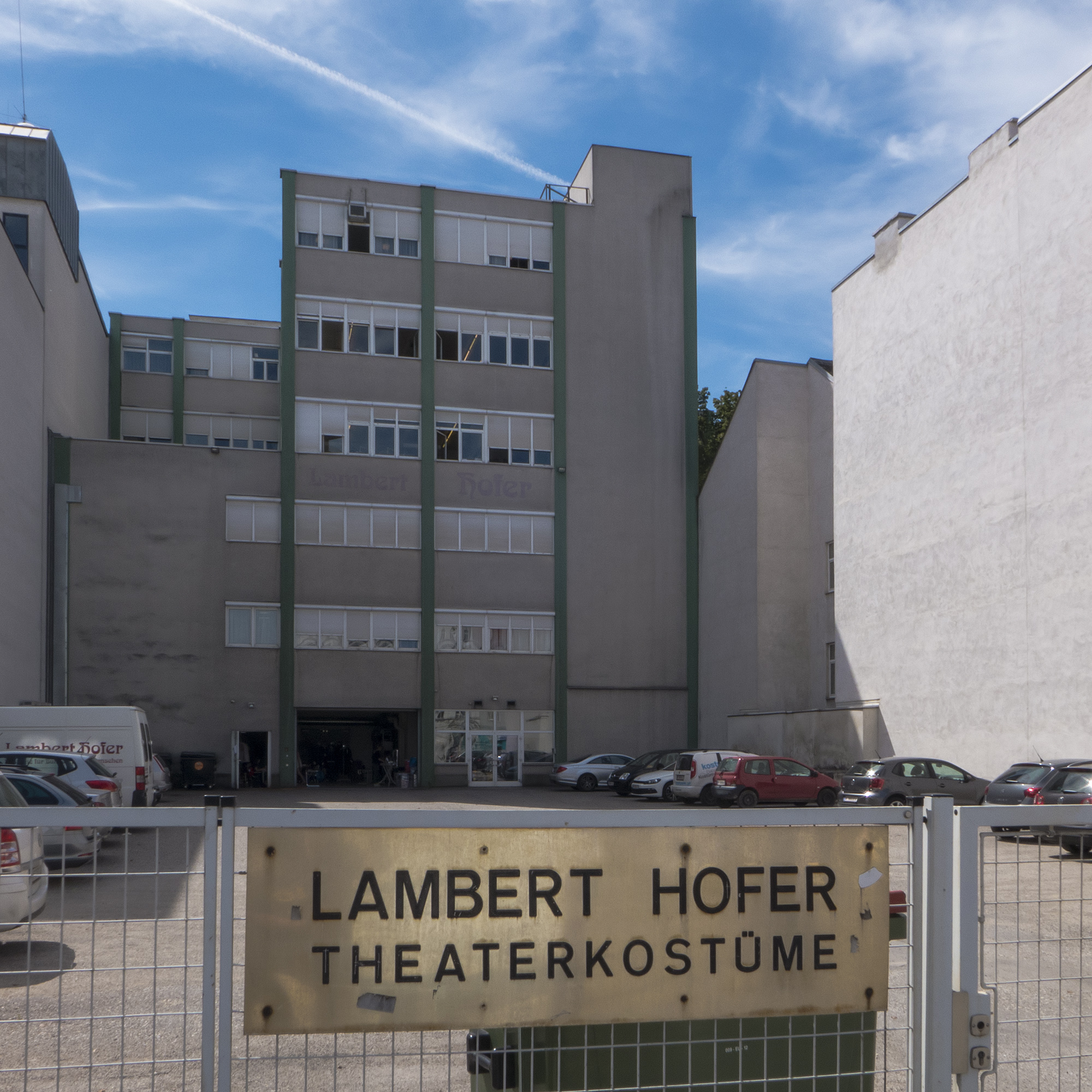 Costumier Lambert Hofer in Vienna 11, Simmeringer Hauptstraße 28